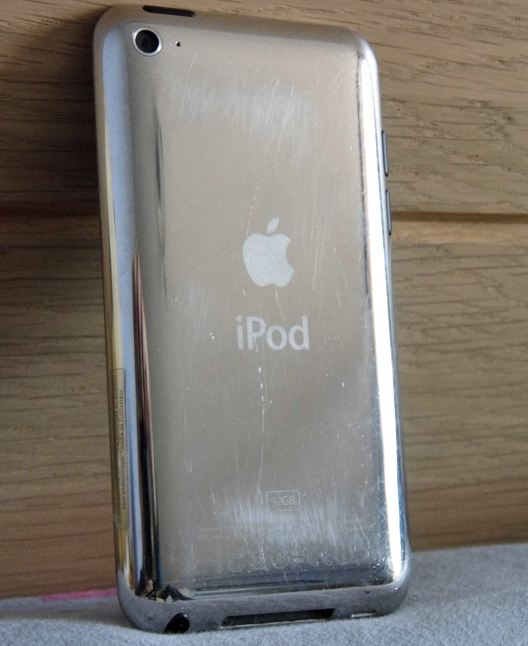 iPod Touch 4th generation